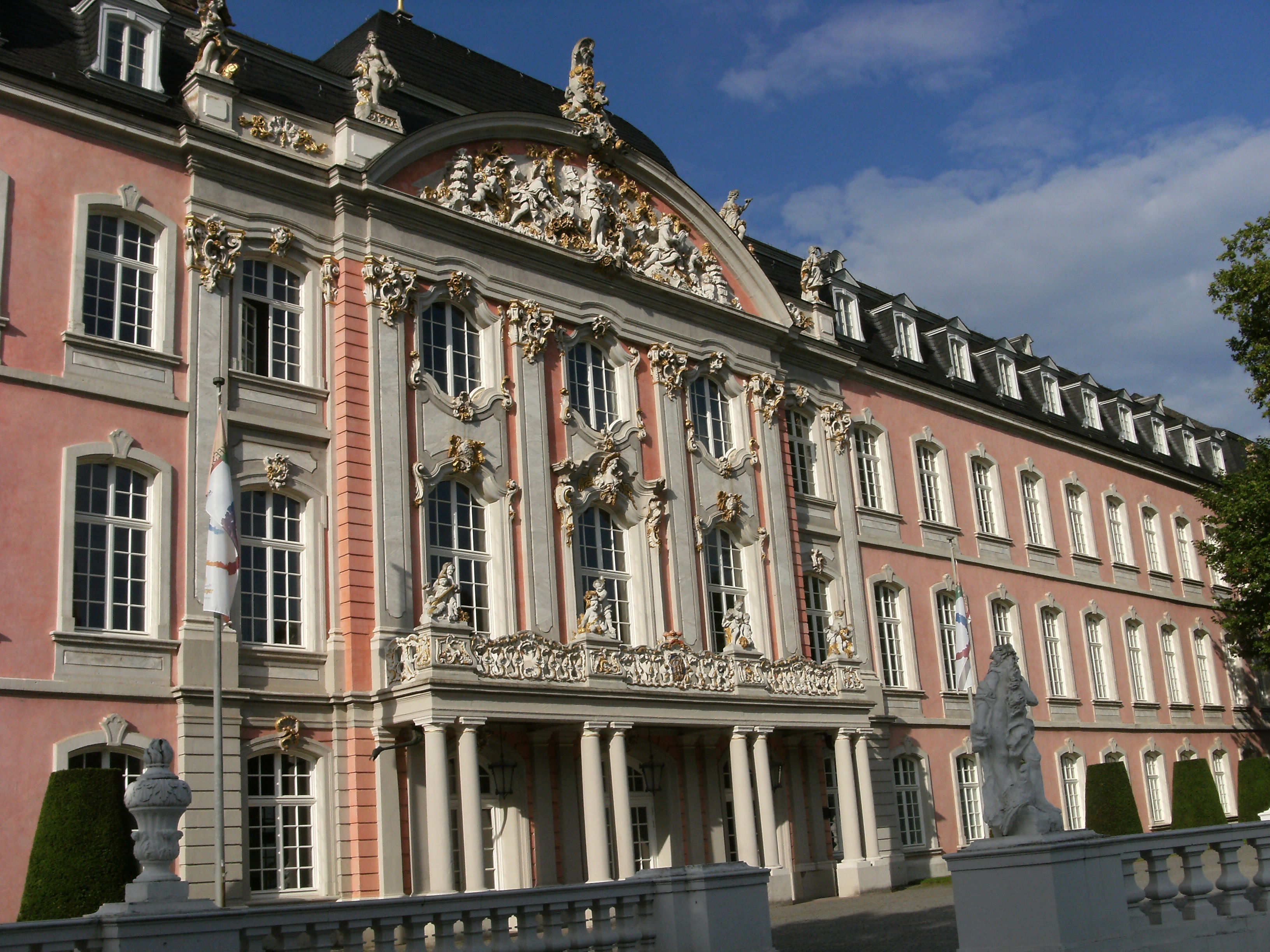 Kurfürstliches Palais Trier.